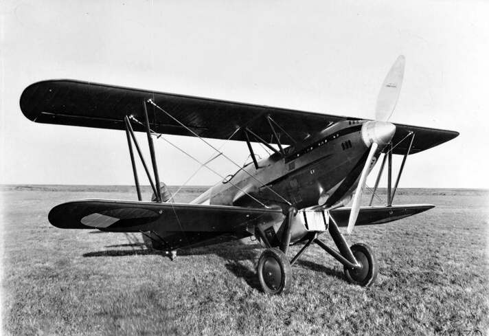 Czechoslovak Avia B-534 fighter aircraft, early variant.